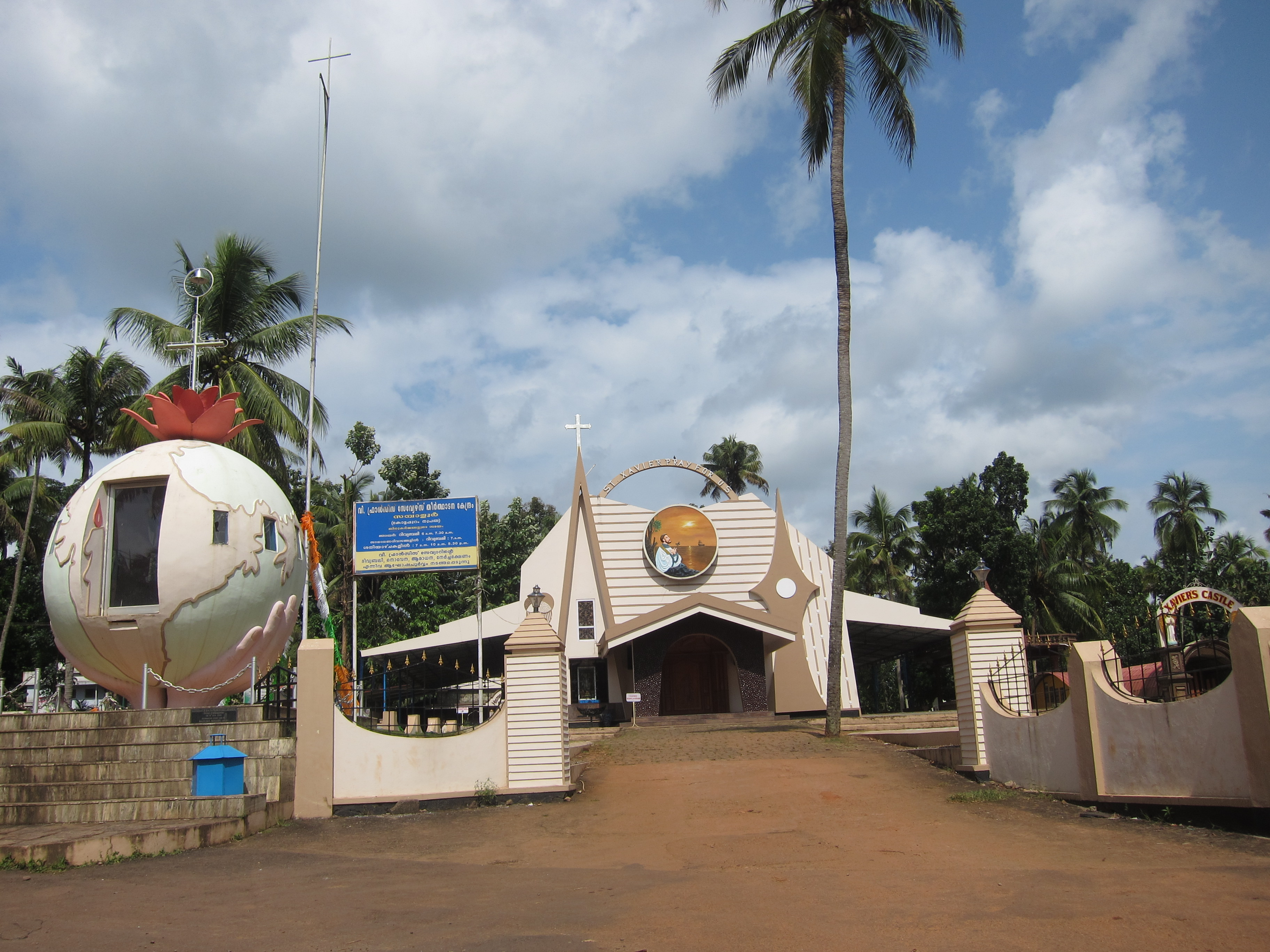 Sampaloor Church - St: Francis Xavier's Church, Sampaloor, Near Ambazhakad, Mala Panchayat, Thrissur District, Kottappuram Diocese, Latin Rite സമ്പാളൂർ പള്ളി - സെന്റ് ഫ്രാൻസീസ് സേവ്യർ പള്ളി, സമ്പാളൂർ, അമ്പഴക്കാടിന് സമീപം, മാള പഞ്ചായത്ത്, തൃശ്ശൂർ ജില്ല, കോട്ടപ്പുറം രൂപത - ലത്തീൻ റീത്ത്